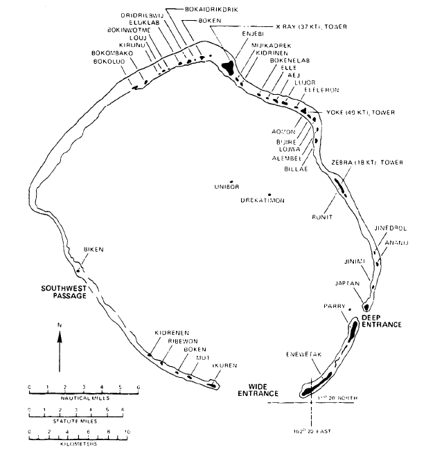 Eniwetak Atoll